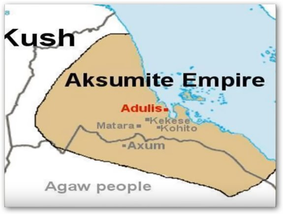 Aksumite Empire around 150 BC.